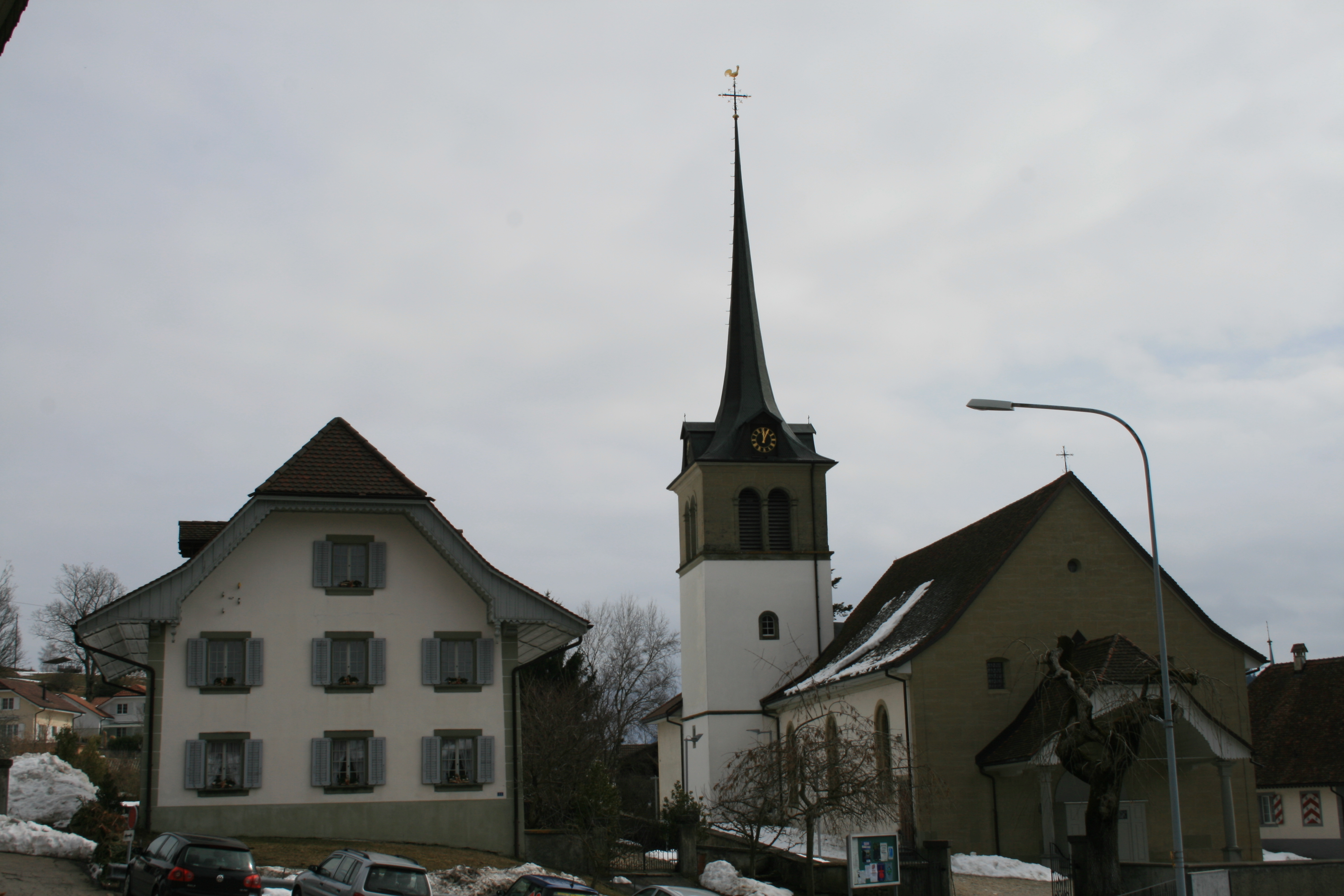 The rom.-kath. church of Rechthalten FR, Switzerland